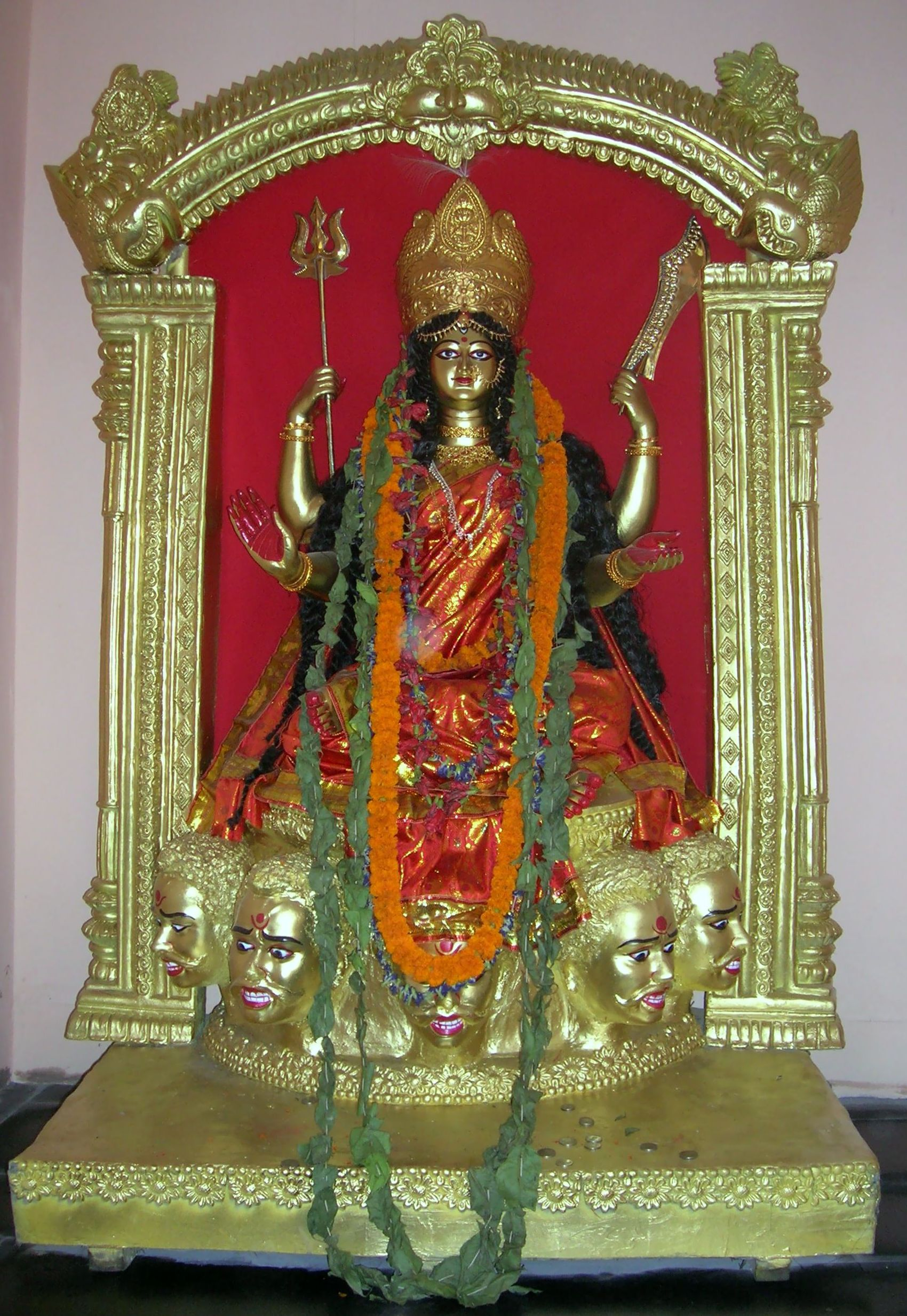 Devi Chandi at Behala Nutan Dal, Kolkata, 2010.